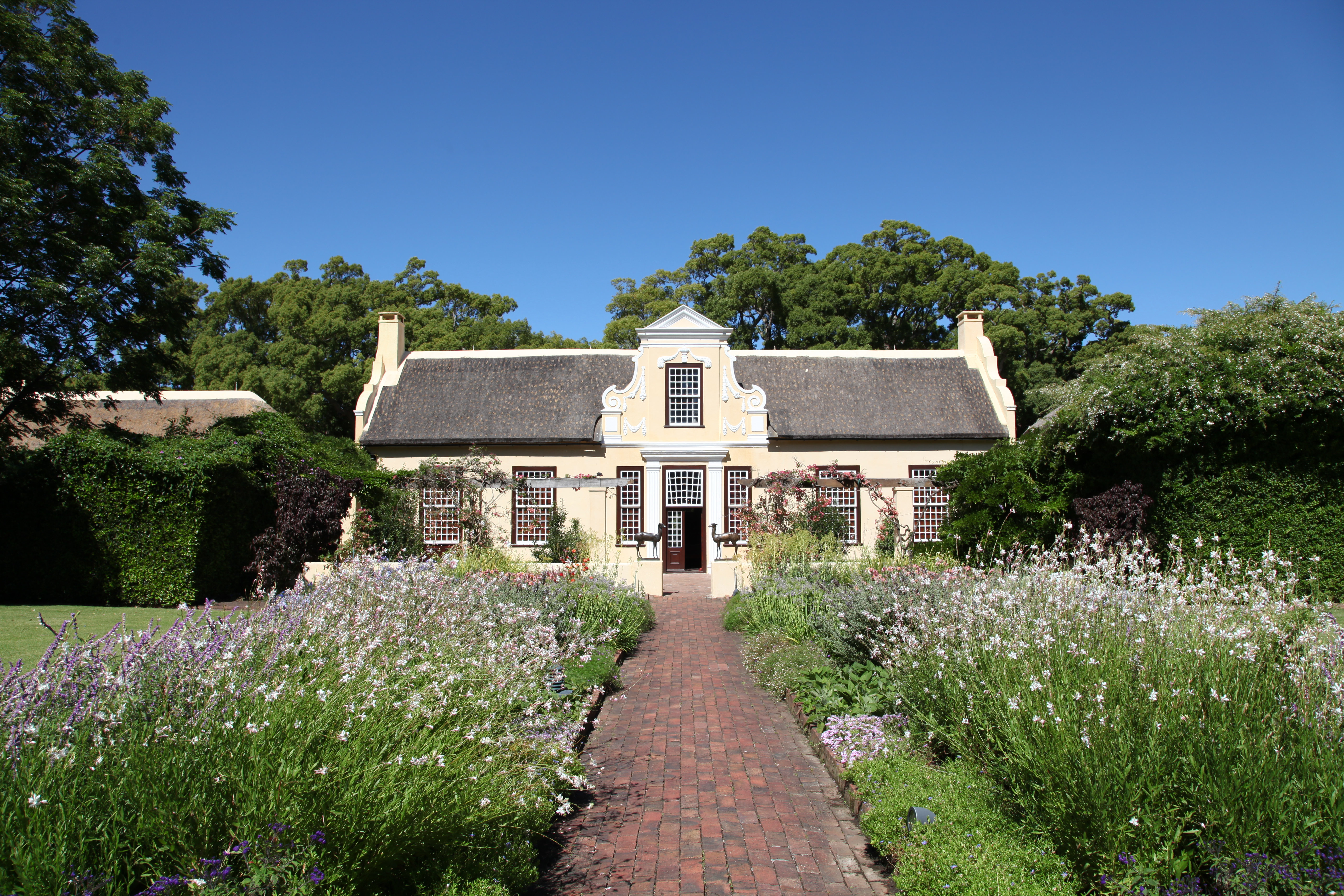 Vergelegen, in Somerset West, South Africa, was built by the Cape Colony governor Willem Adriaan van der Stel and finished in 1701.